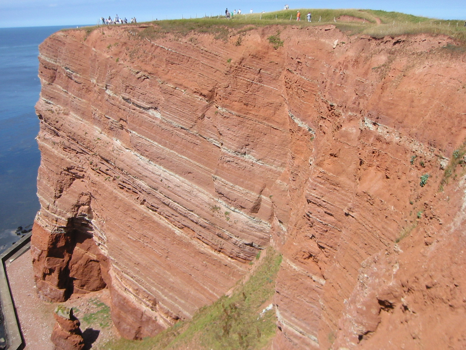 cliff, Heligoland